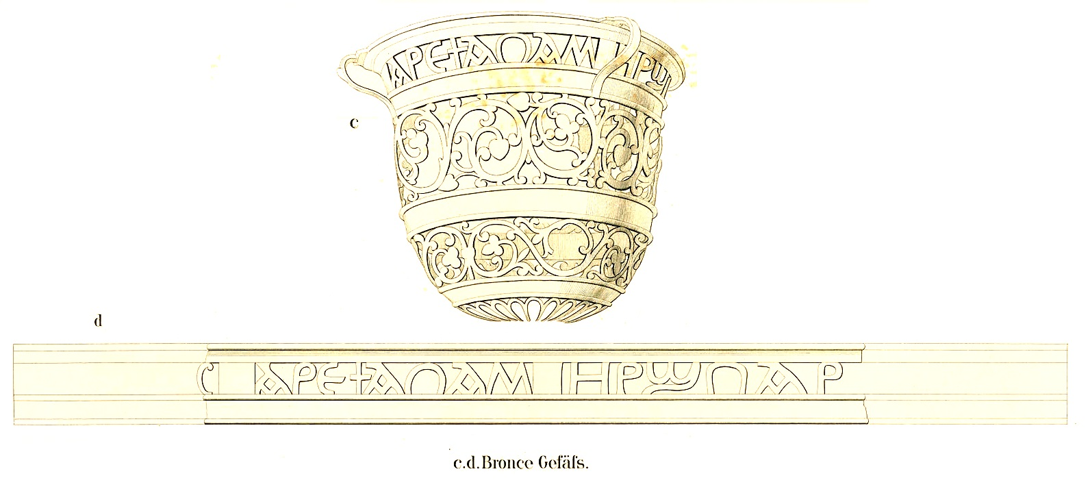 Drawing of an incense burner made of bronze, which Richard Lepsius obtained from the Sheikh of Soba, who claims that it was discovered in ruins of Soba. It bears a damaged inscription in Old Nubian.